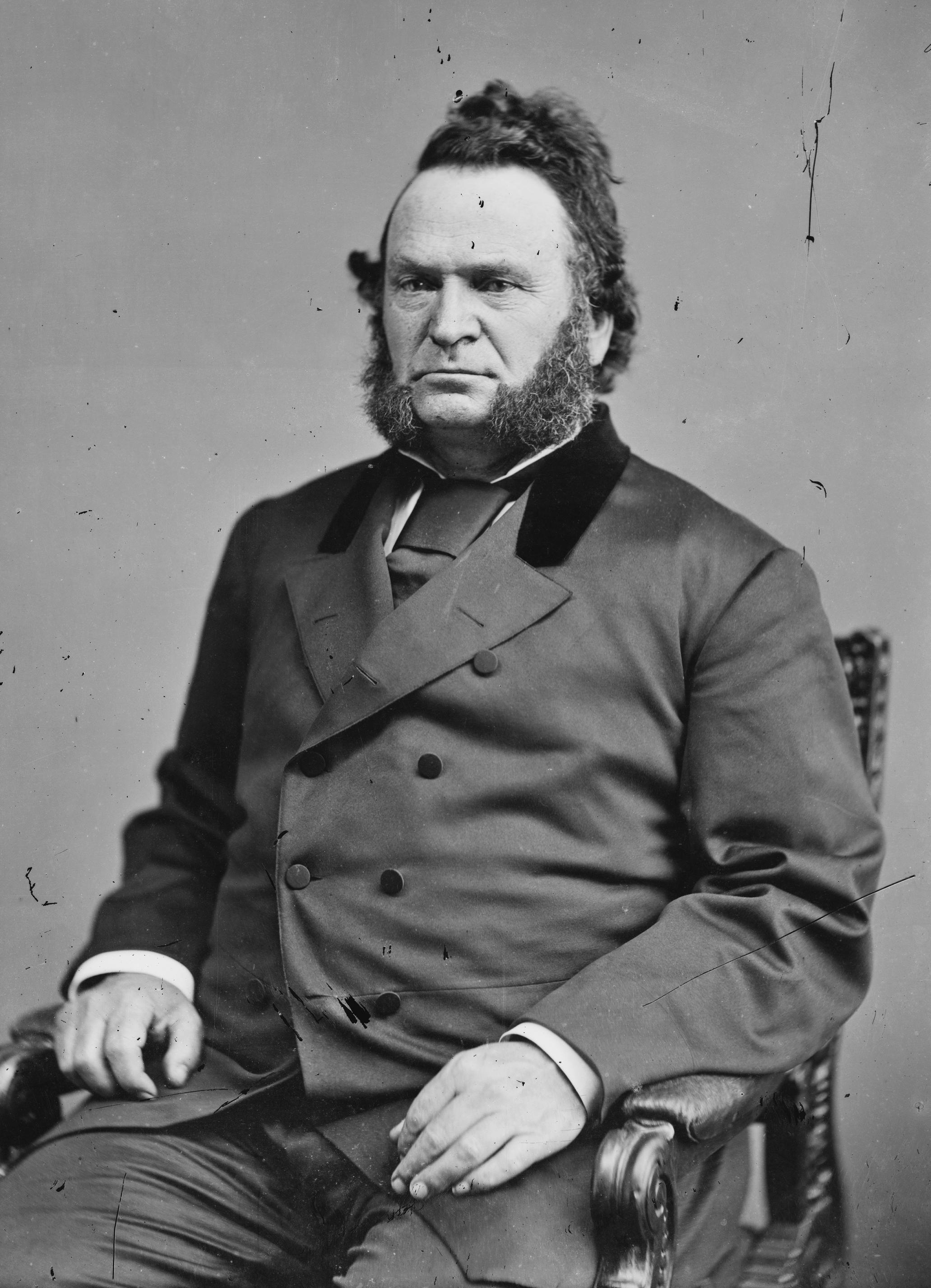 James W. Nesmith. Library of Congress description: "Nesmith, Hon. James Willis of Oregon".